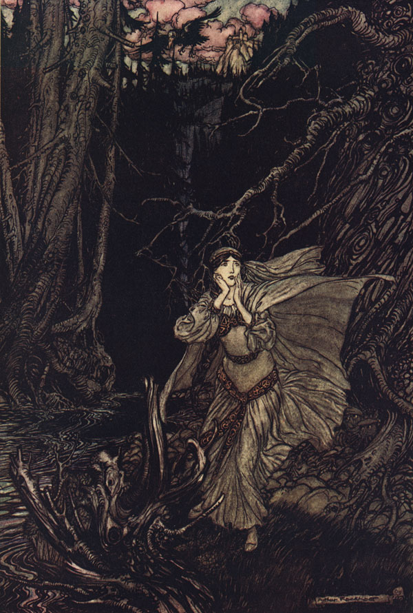 The thirteenth illustration by Arthur Rackham for Friedrich de la Motte Fouqué's 1909 publication, Undine. It had the following caption: Bertalda in the Black Valley.